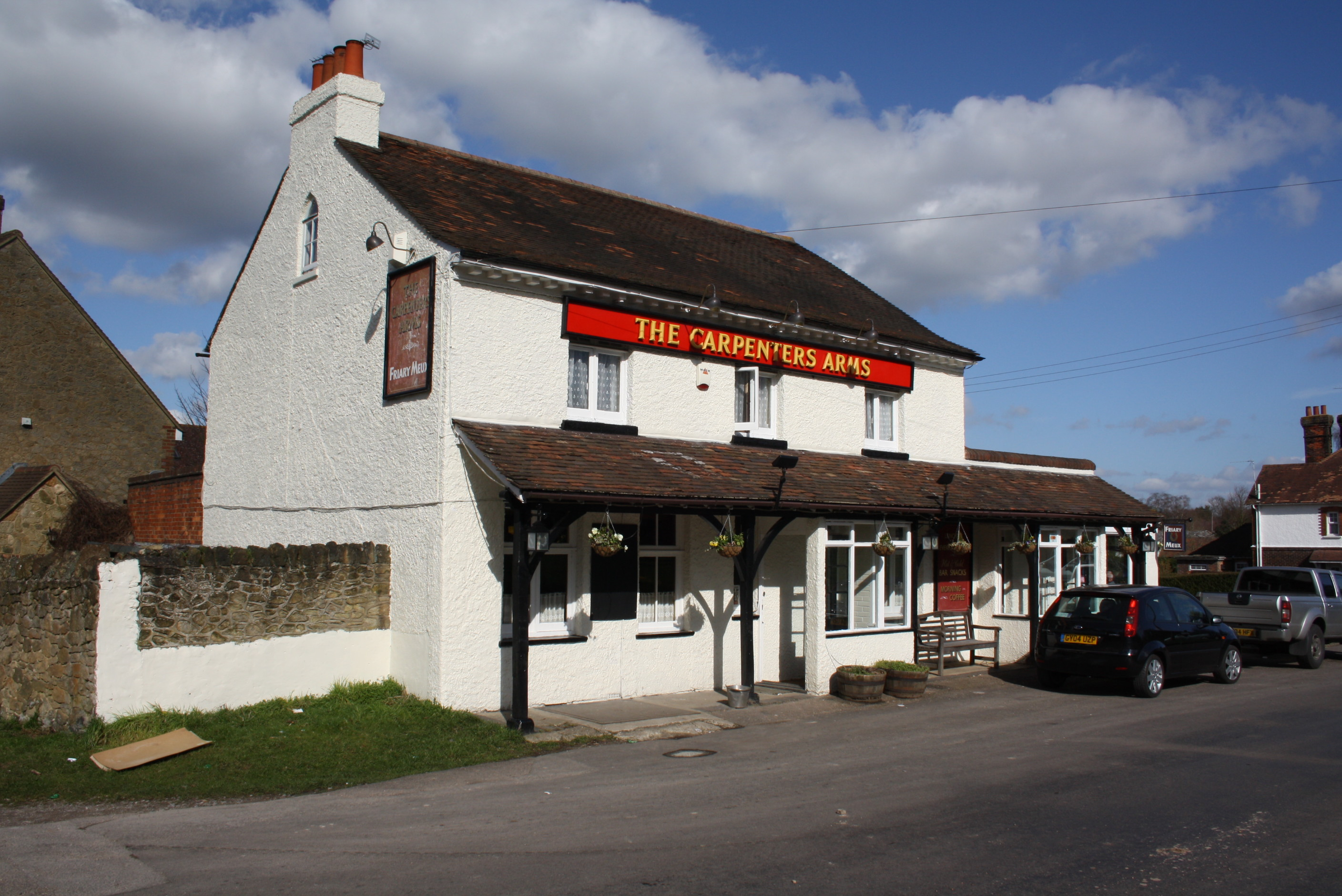 The carpenters Arms in the hamlet of Limpsfield Chart in Surrey.